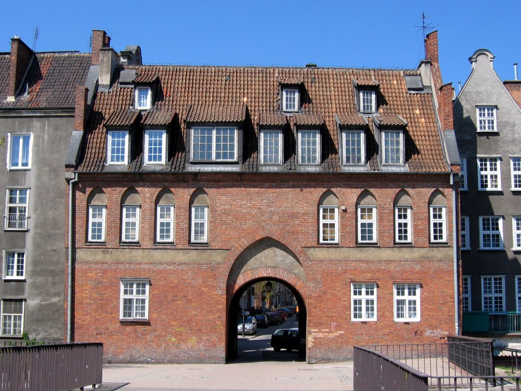 Cow Gate in the Main Town of Gdańsk Rafal Konkolewski, 2006